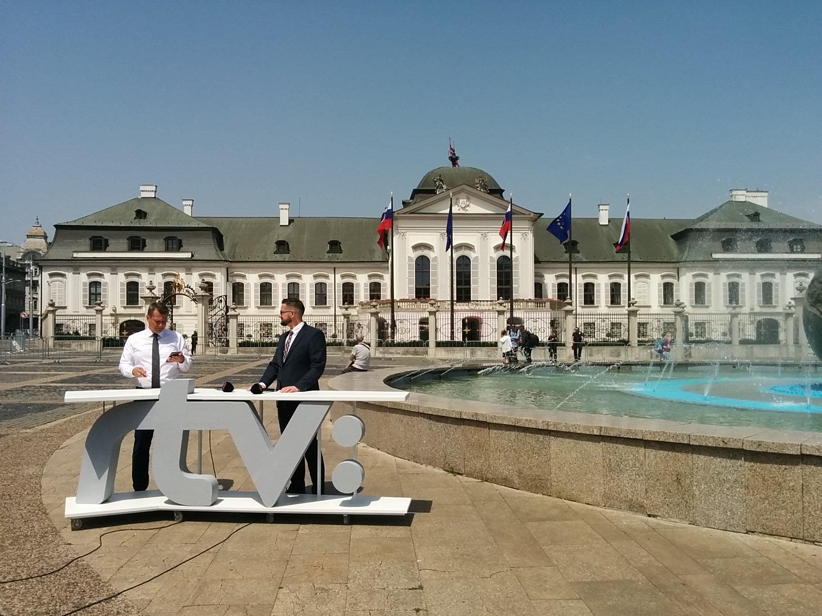 A "TV studio" of the Slovak public broadcaster RTVS in front of the Presidential Palace during the Inauguration of Zuzana Čaputová on 15 June 2019.